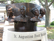 St. Augustine Foot Soldiers Monument, Cast Bronze, by Brian R. Owens